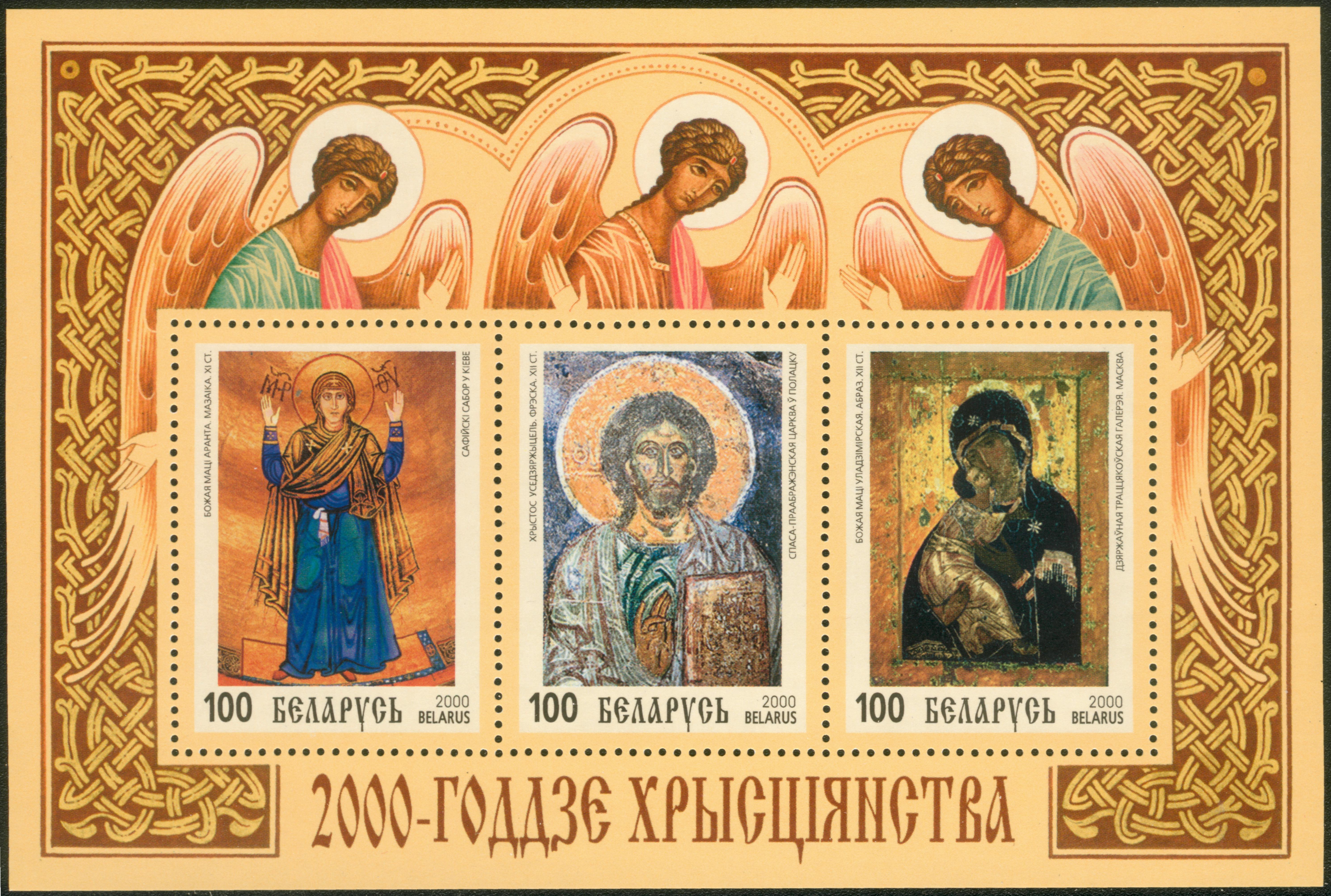 2000 years of Christianity; Belarus souvenir sheet of three stamps of 2000; a joint issue with Russia and Ukraine.